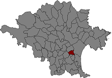 Location of Riumors in Alt Empordà